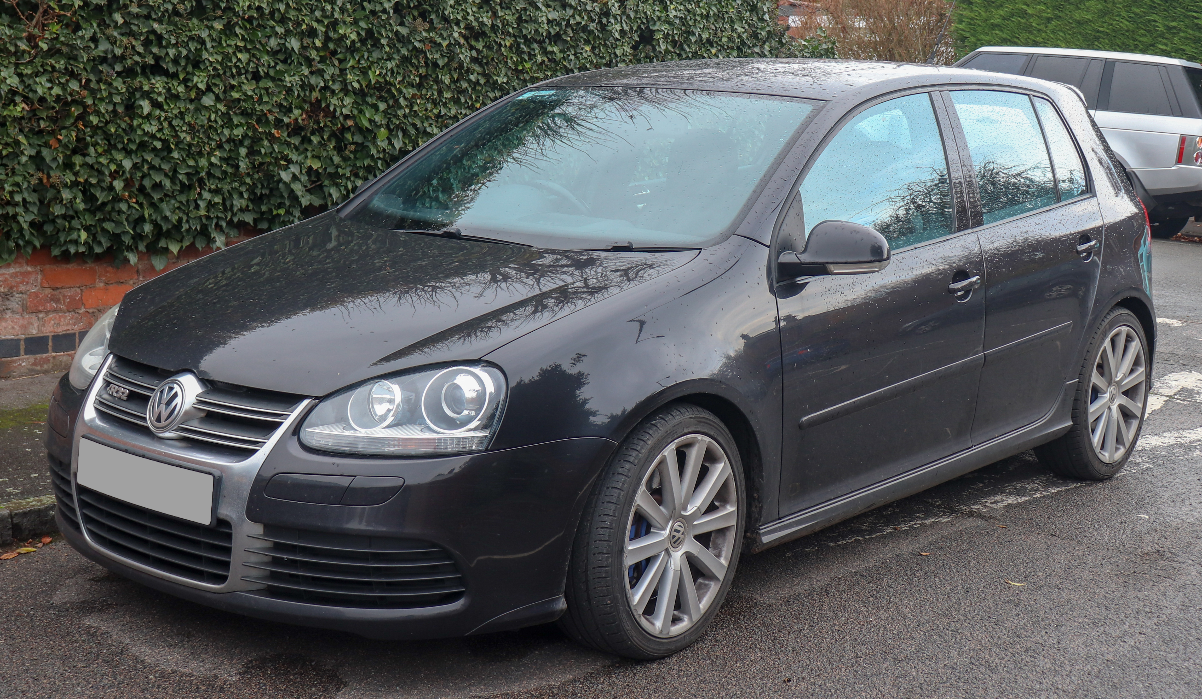 2008 Volkswagen Golf R32 Front Taken in Leamington Spa